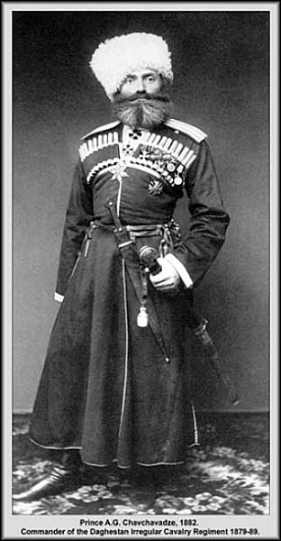 Prince A. G. Chavchavadze, Commander of the Daghestan Irregular Cavalry Regiment 1879-89